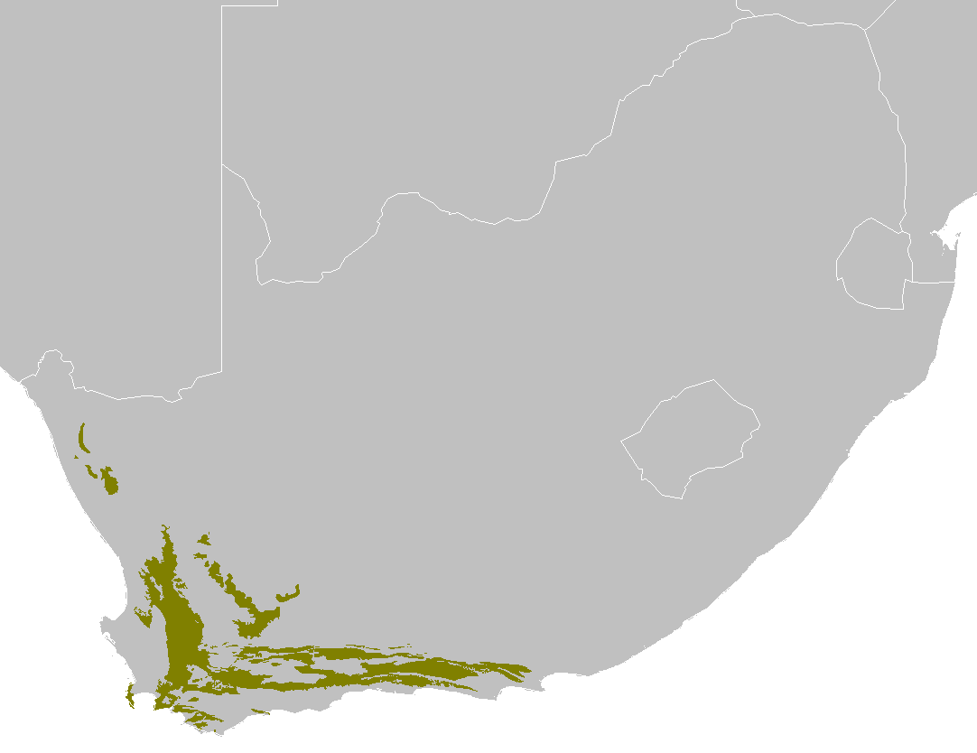 The Montane fynbos and renosterveld ecoregion